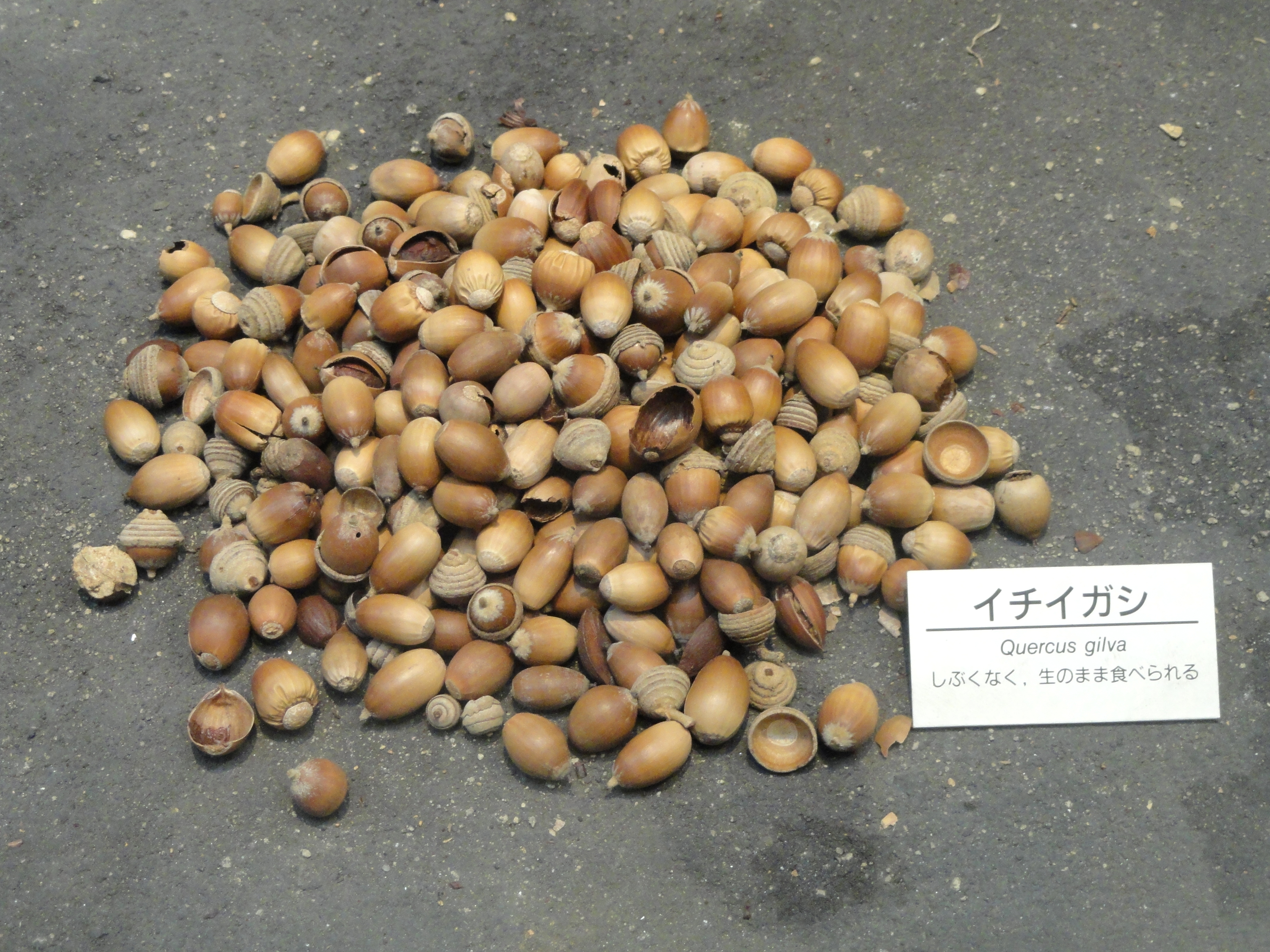 Exhibit in the Osaka Museum of Natural History, Osaka, Japan.